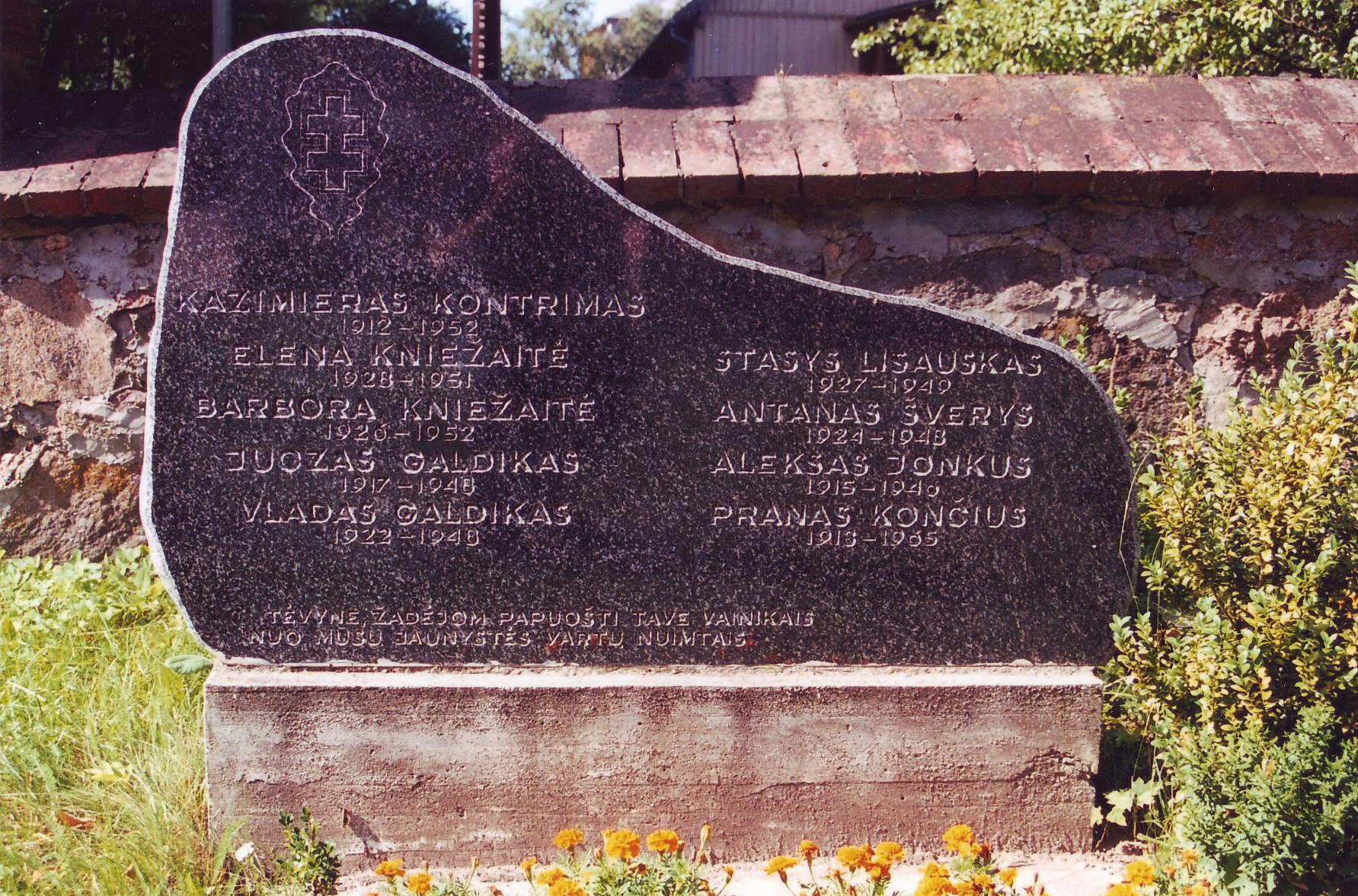 Grūšlaukė, Kretinga district, LithuaniaLietuvių: Grūšlaukės paminklas partizanams, Kretingos rajonas, Lietuva